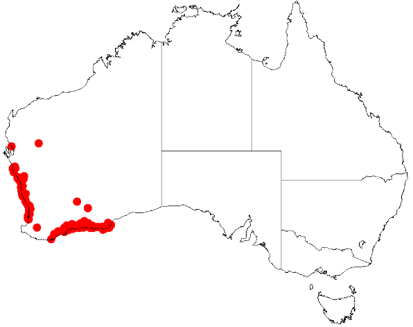 Scaevola thesioides occurrence data downloaded from Australasian Virtual Herbarium on 12 May 2019